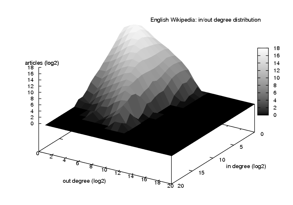 Wikipedia's hyperlink graph degree distribution; a figure from "Wikipedia as an ant-hill"